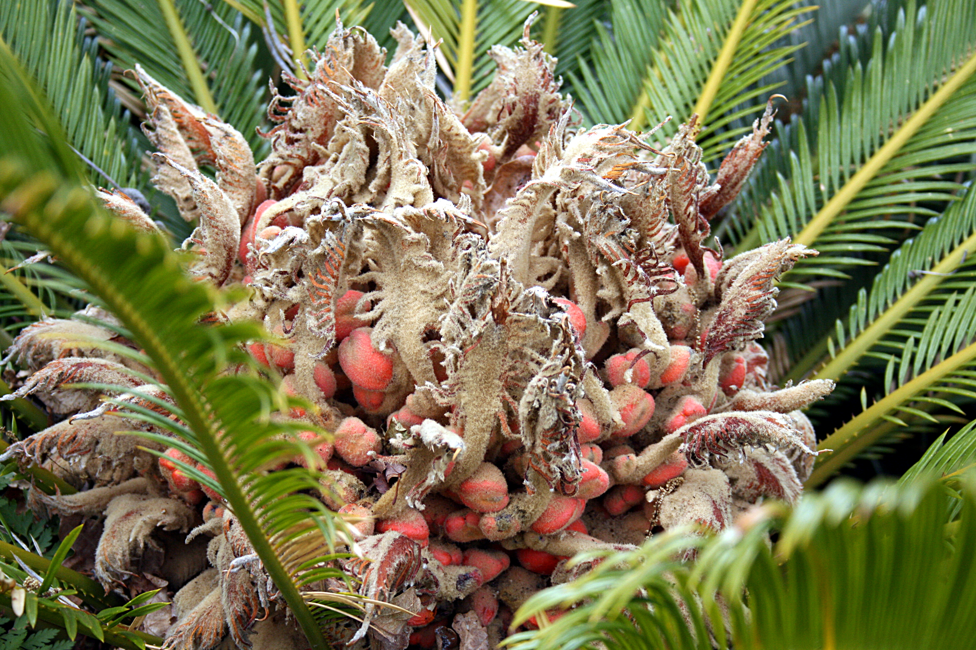 Funchal, Monte: Japanischer_Palmfarn_(Cycas_revoluta)